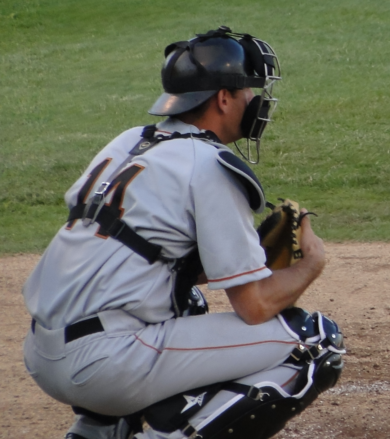 Alex Trezza catches for the Worcester Tornadoes and Burt Reynolds bats for the Newark Bears during a May 2011 game at Bears & Eagles Riverfront Stadium in Newark, New Jersey.